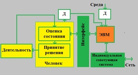 Individual man-machine system structure